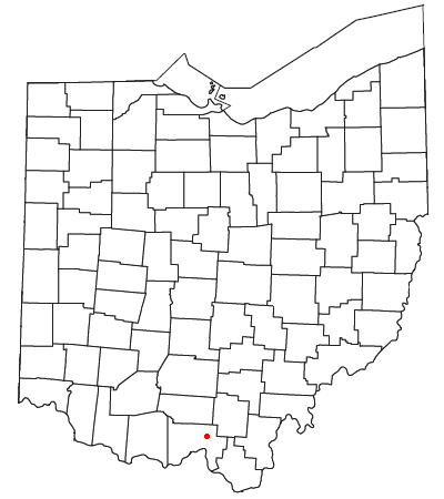 Locator map of the unincorporated community of Minford in Scioto County, Ohio, United States.